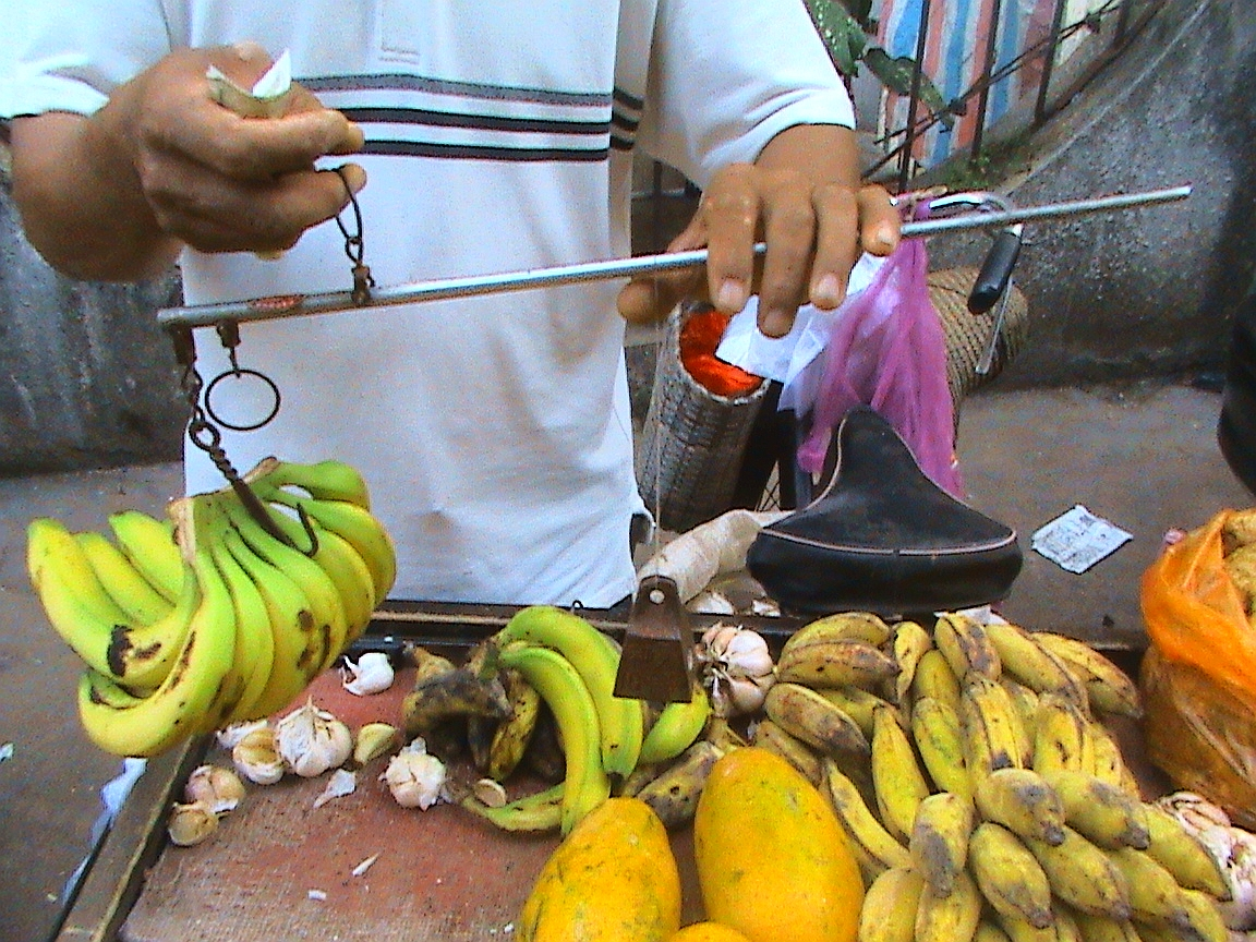 An aluminum, mass-produced balance scale sold and used throughout China. Note the larger ring beneath the user's right hand. The scale can be inverted, and held by this ring. This produces greater leverage, and is used for heavier loads. This scale is sold with an aluminum pan, but this is rarely used. The cost approximately 12 yuan ($2 USD) in 2011. Photo taken in Hainan Province, China.